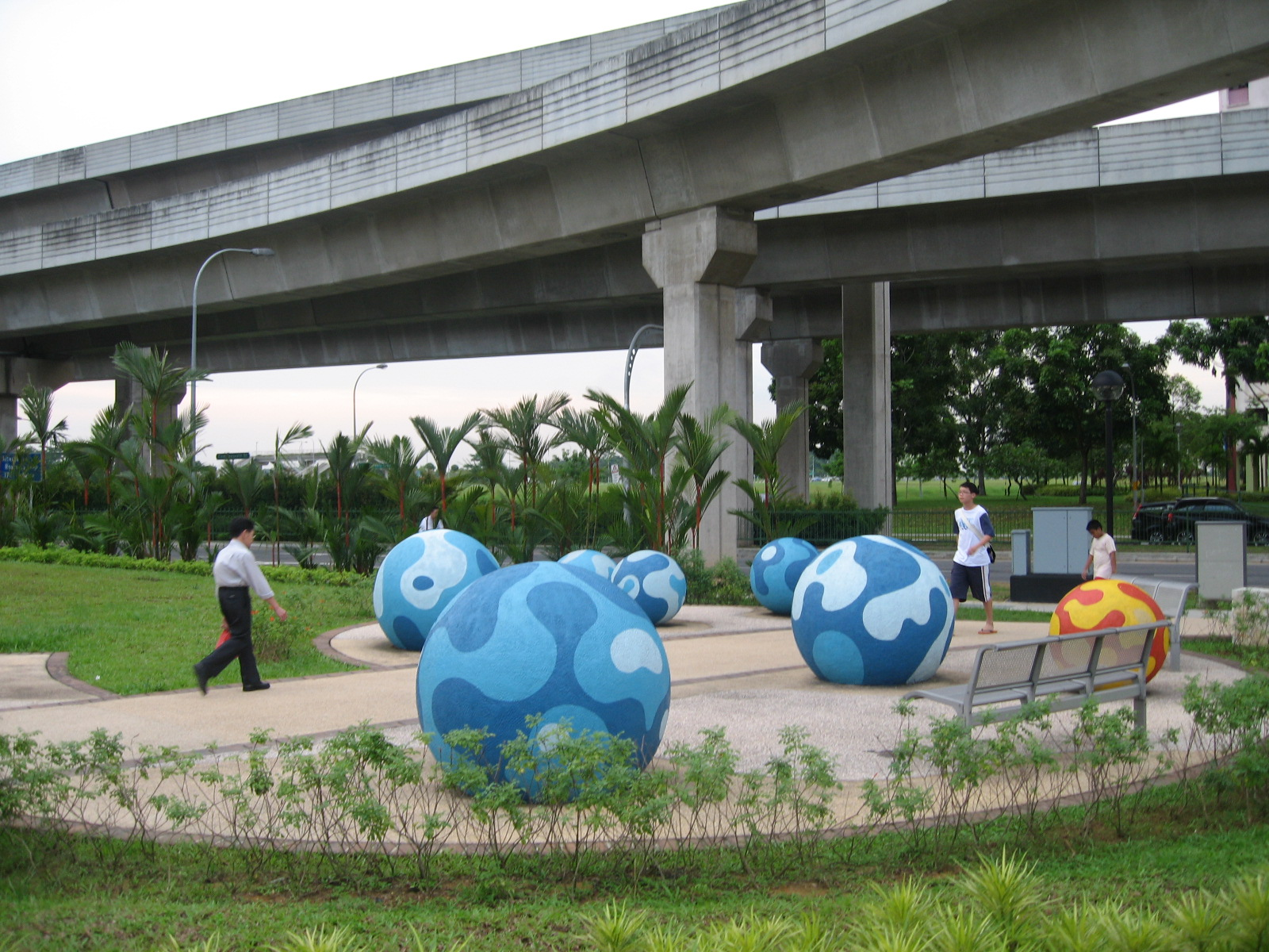 Sengkang Sculpture Park.